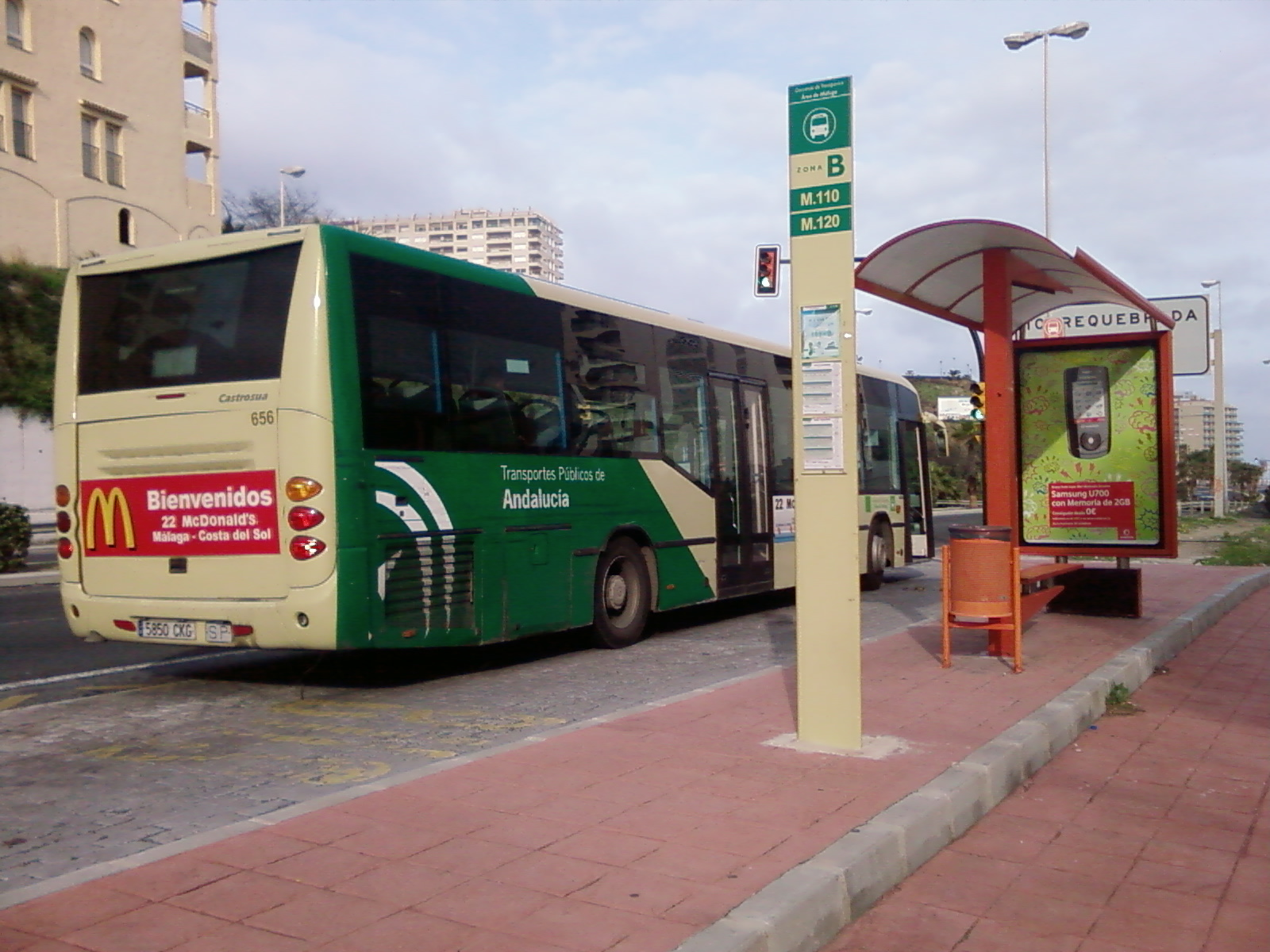 Bus and bus stop in Benalmádena, Málaga, Spain.